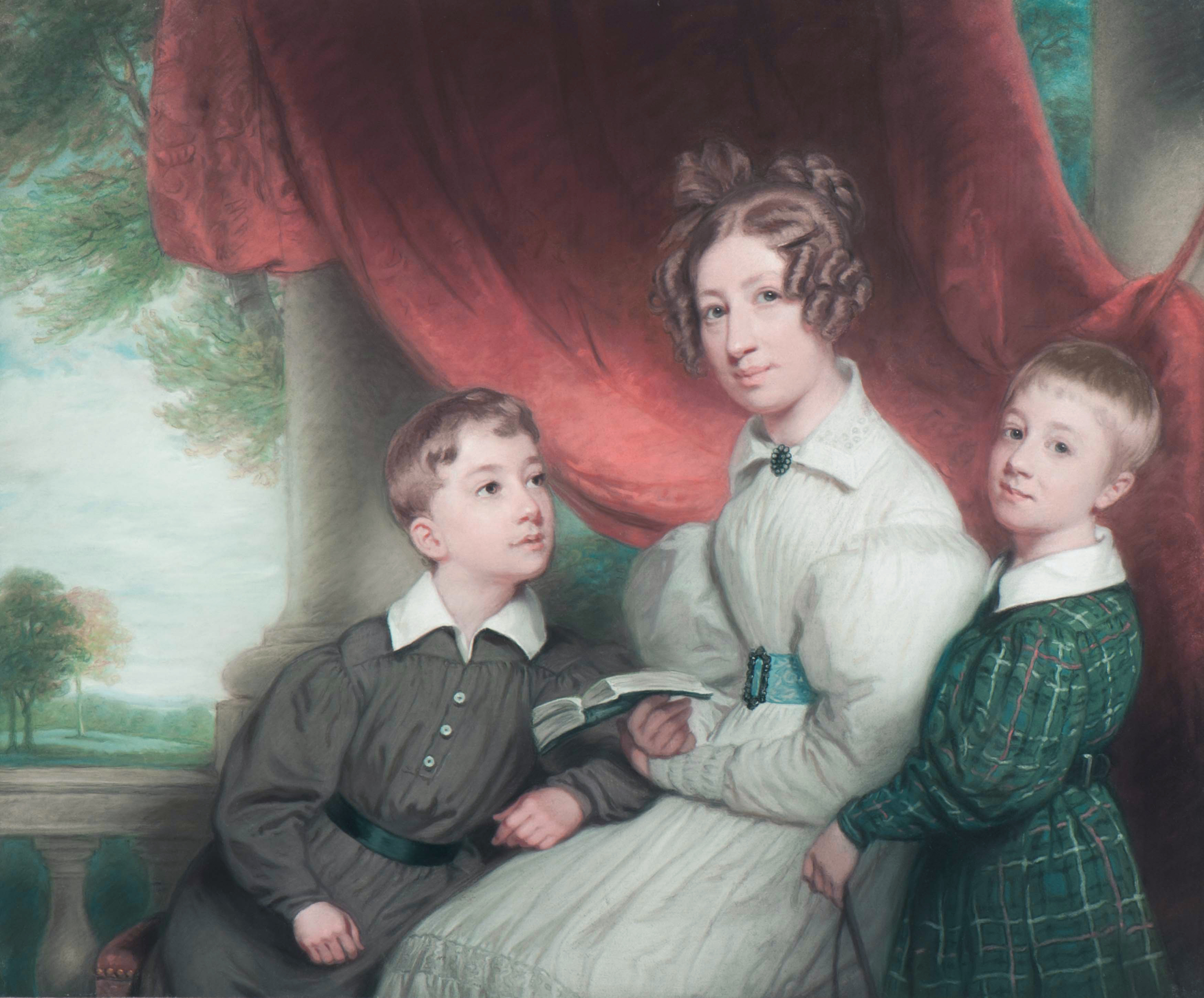 The children Beels, children of Mr. Marten Adriaan and Charlotte Christine Gildemeester: Catharina Elisabeth Jacoba Beels (1815-1865) Leonard Marius Beels (1825-1867) Herman Hendrik Beels (1827-1916) On the 31st of May 1860 Catharina married Jacob Swart Abrahamsz. in Haarlem. Her younger brother Leonard (depicted on the left) married lady Agnes Henriette van Loon on the 7th of May 1857 in Amsterdam and was a founding member of het oudheidkundig Genootschap (the archeological society) in Amsterdam. Herman (depicted on the right) married Anna Herculine Alexandrine Sandenbergh Matthiessen on the 8th of May 1851 in Haarlem, and was the director of de Associatie Cassa and De Nederlandsche Bank. This pastel drawing is one of the last large sized works by Hodges executed in this technique, a smaller sized study is part of the collection of the Rijksprentenkabinet in Amsterdam (inv.no. 59-477). pastel on paper 46.5 x 56 cm circa 1833/1834